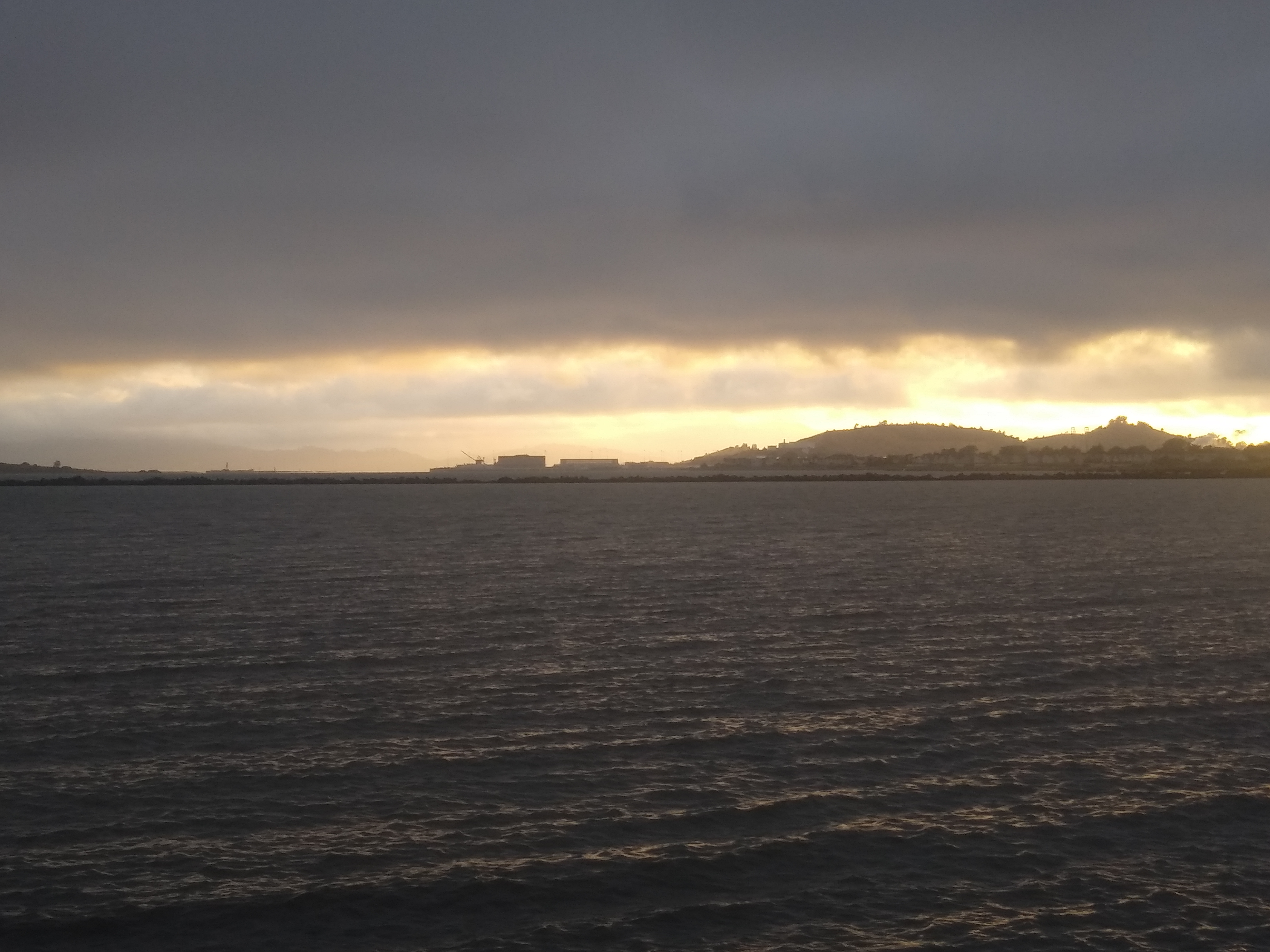 Richmond Inner Harbor, Port of Richmond, and Marina Bay District as seen from Point Isabel Regional Shoreline